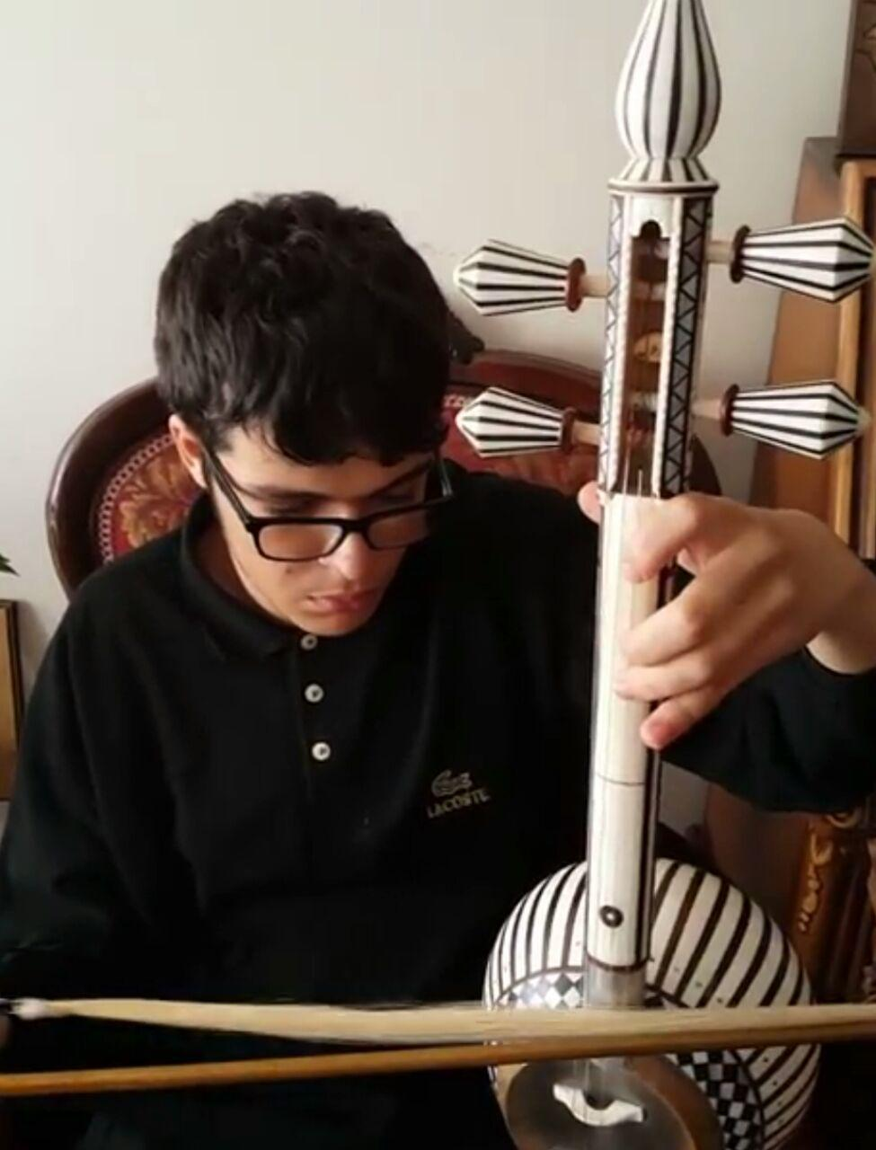 Arya Tabibzadeh